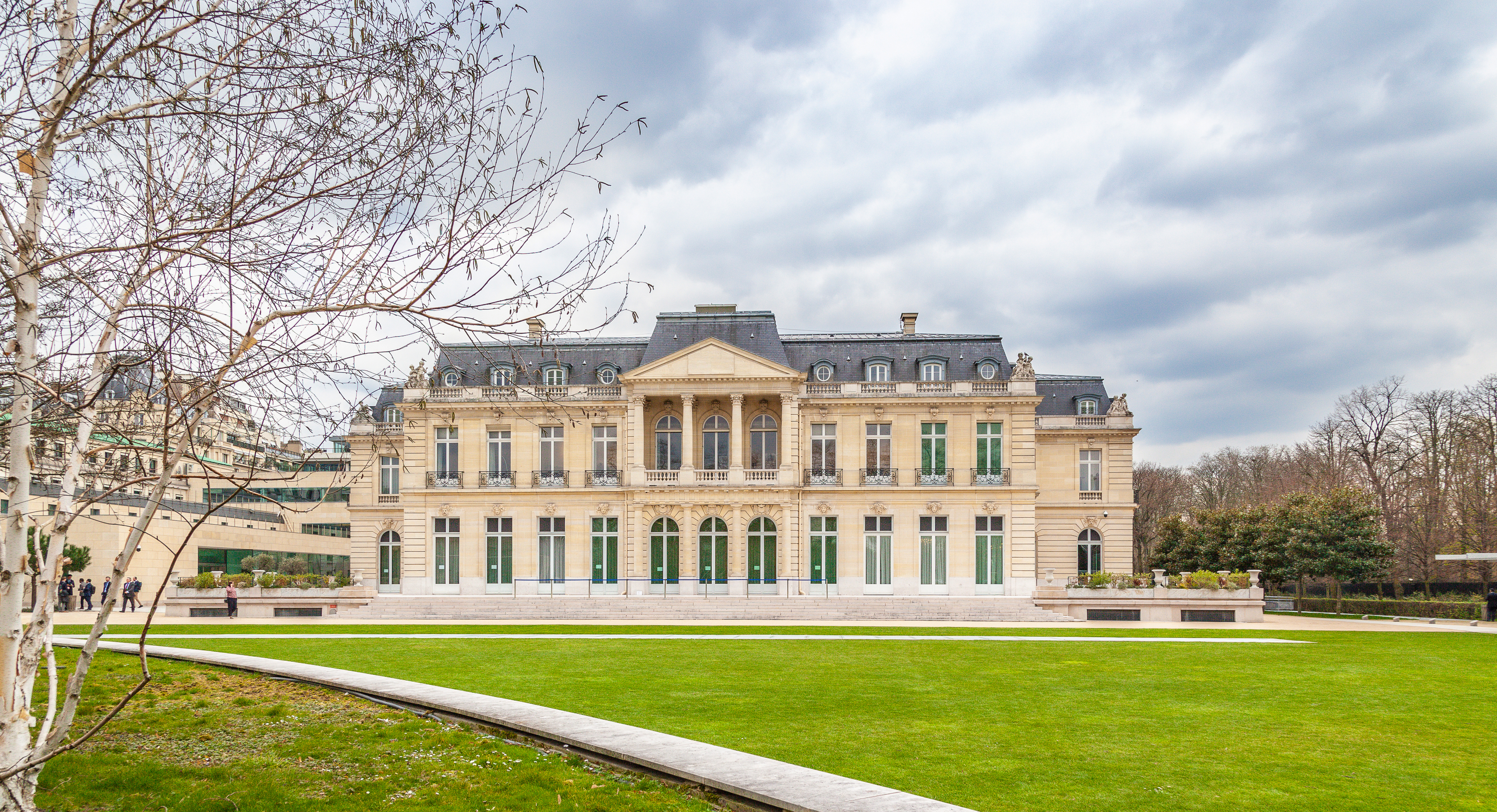 Château de la Muette, view from the park, Paris, France.